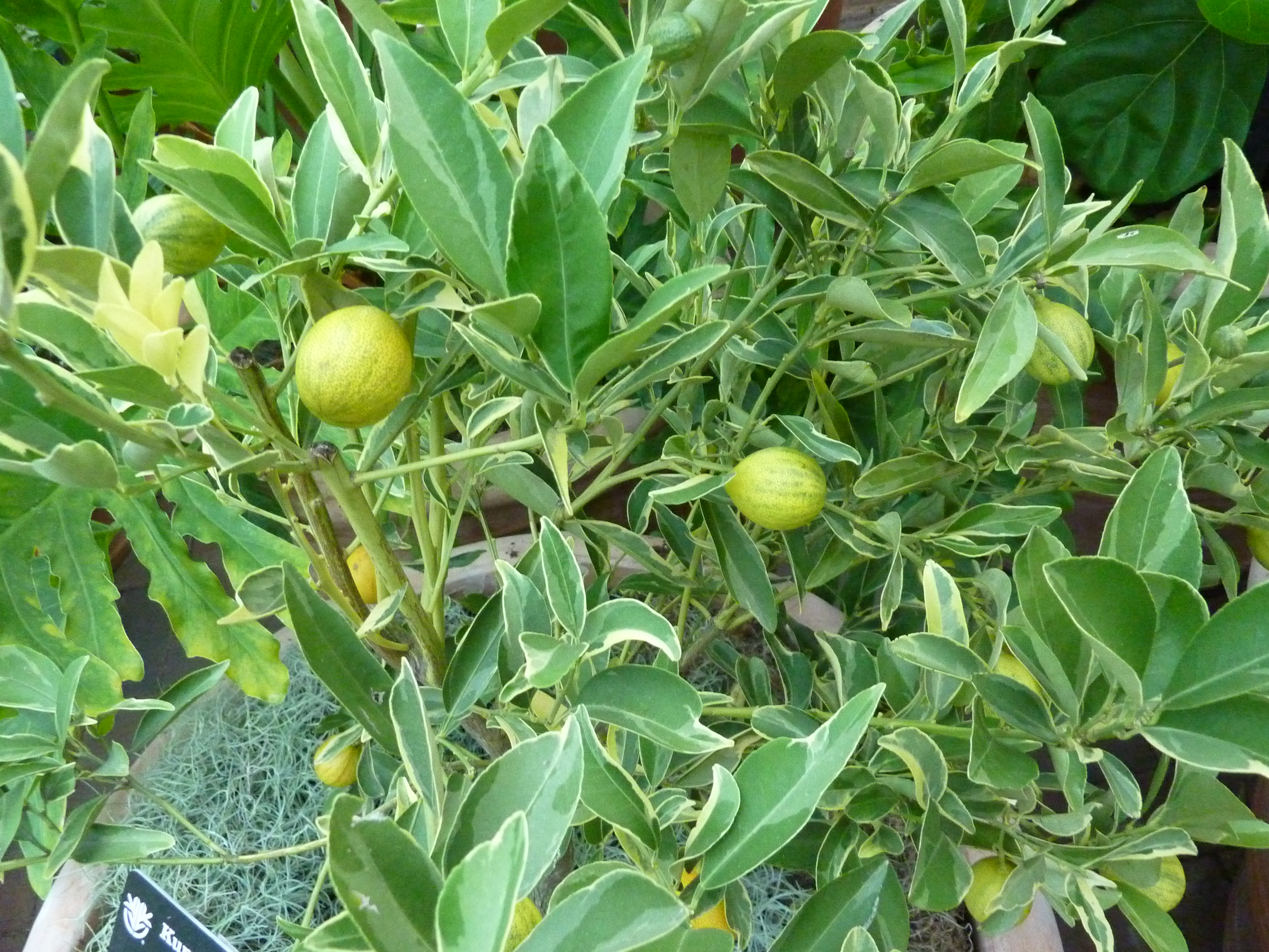 Kumquat, Citrus japonica 'Centennial Variegated', in the Linnean House of the Missouri Botanical Garden